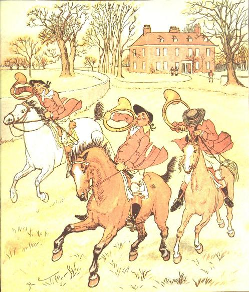 page from the 3 jovial huntsmen